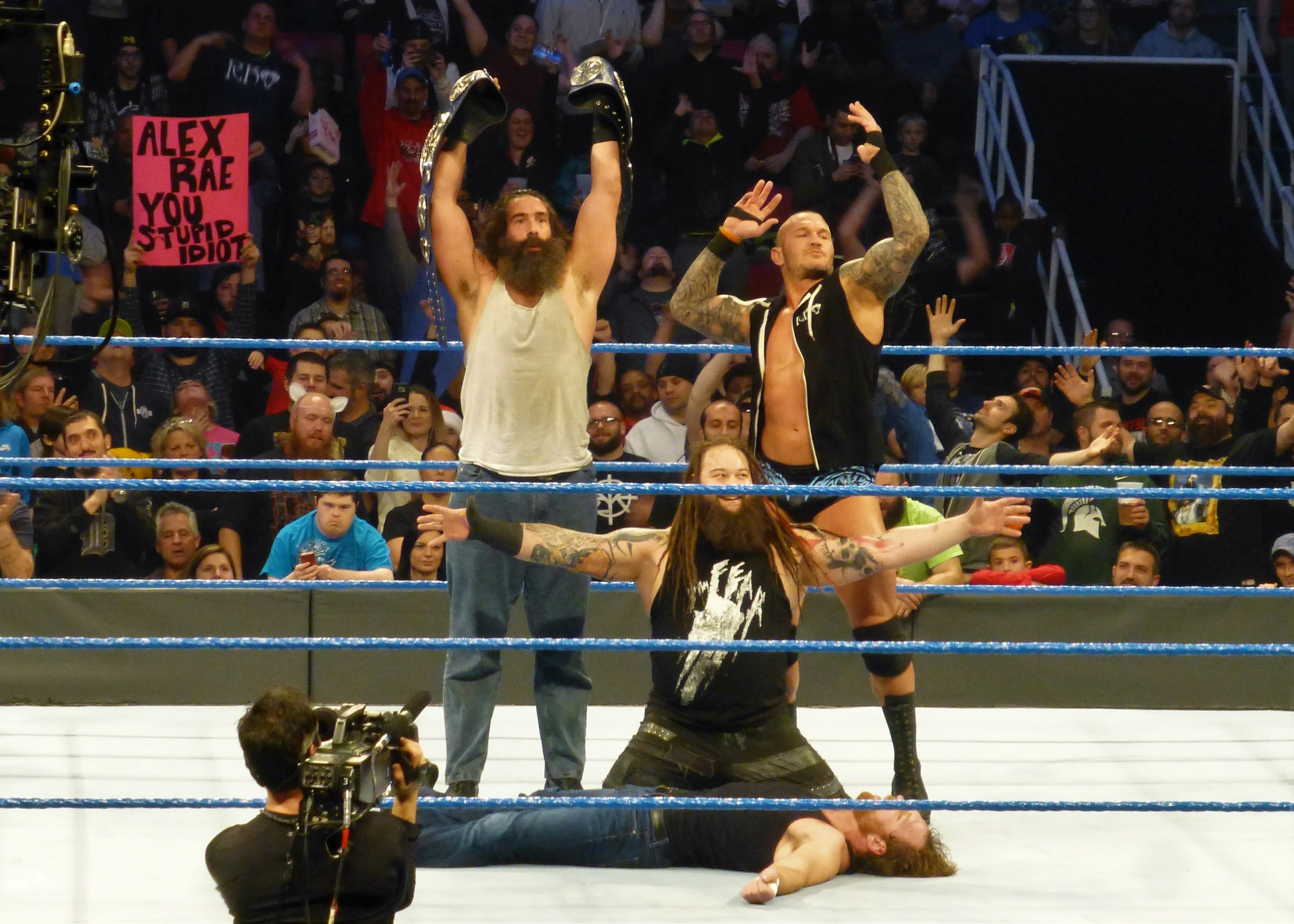 Luke Harper and Bray Wyatt and Randy Orton posing over Dean Ambrose